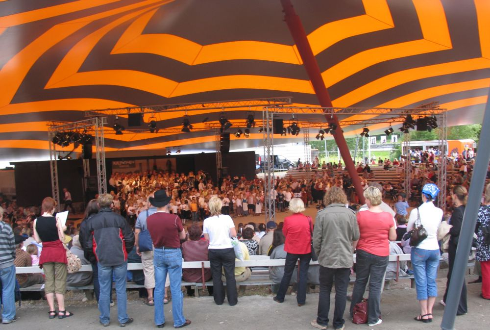 Kaustinen Folk Music Festival in Kaustinen, Finland